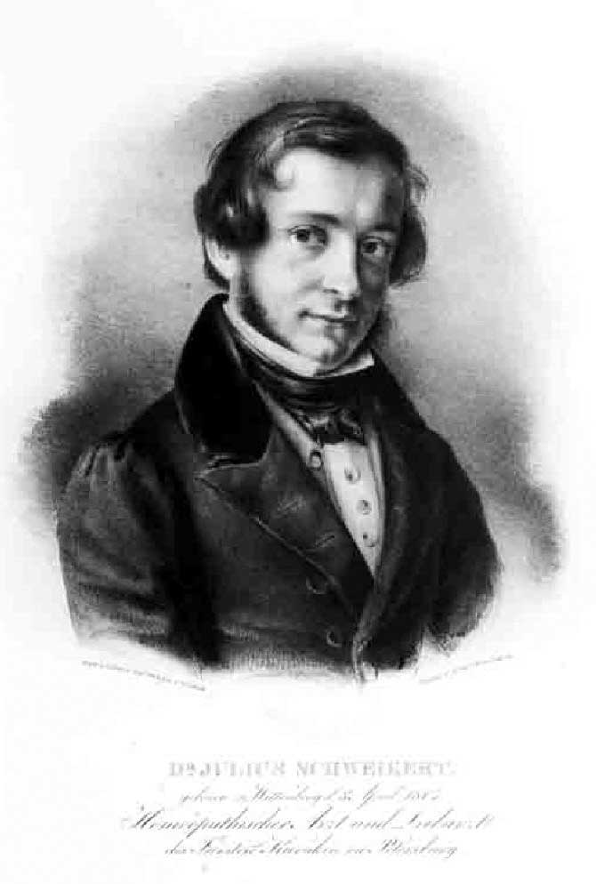 Julius Schweikert (1807-1876) German physician and pioneer of homeopathy